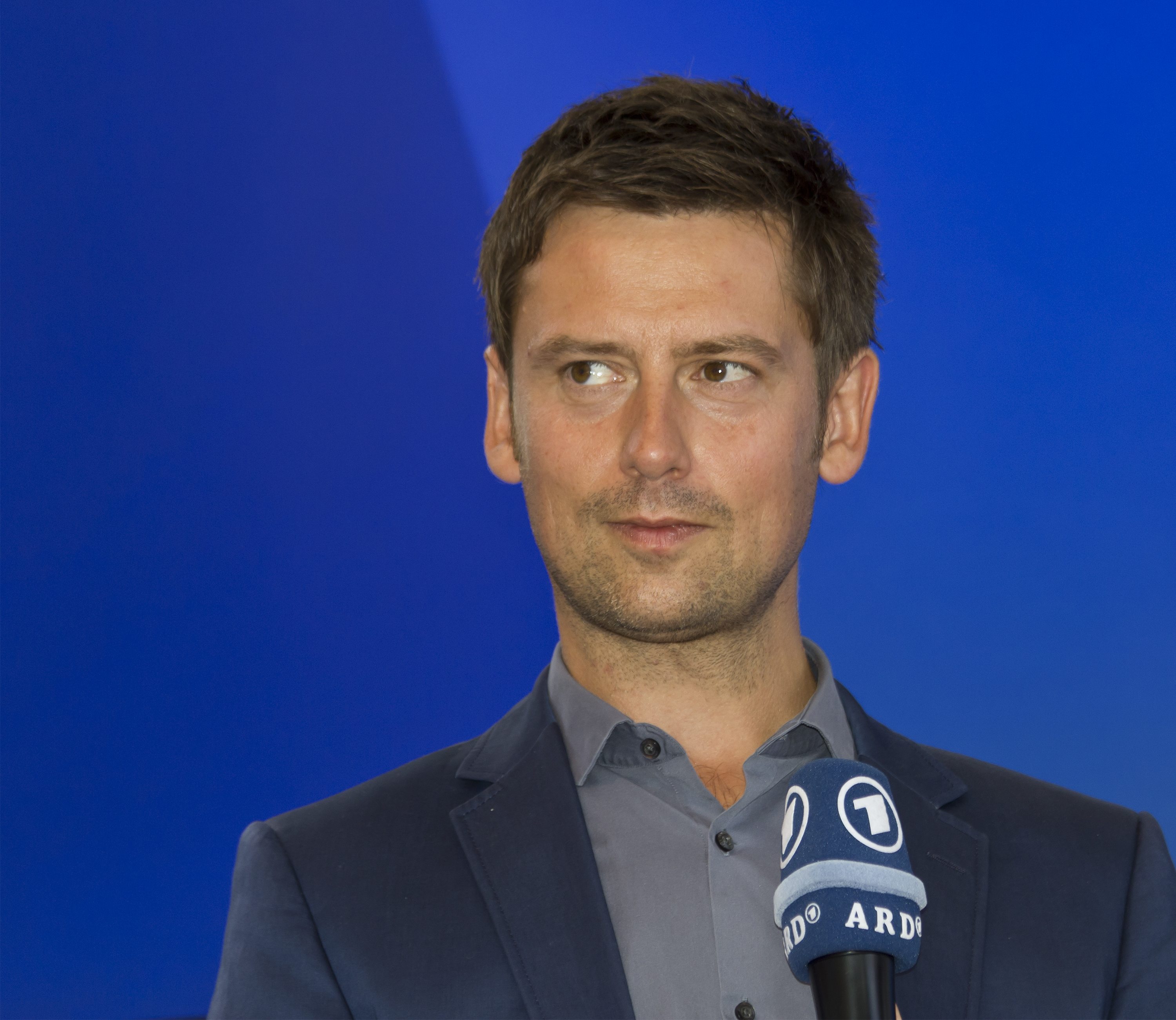 Sascha Hingst, a TV journalist from Germany